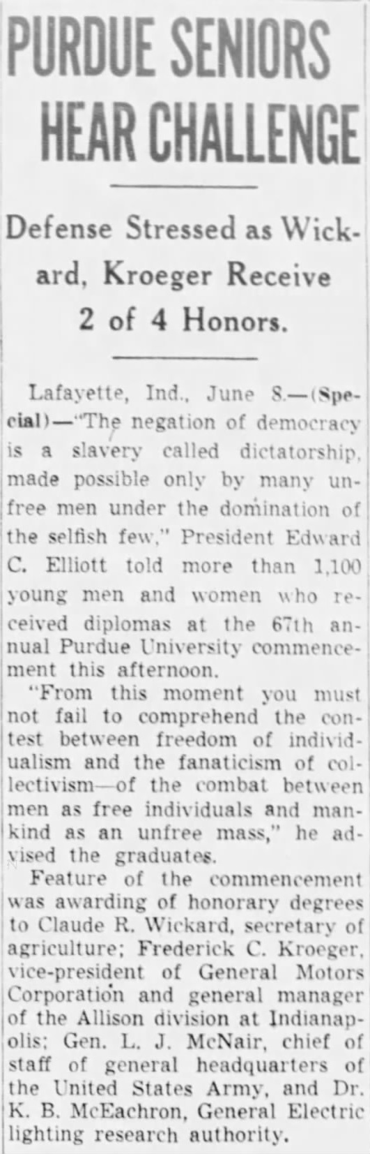 News article describing Purdue University graduation in 1941.